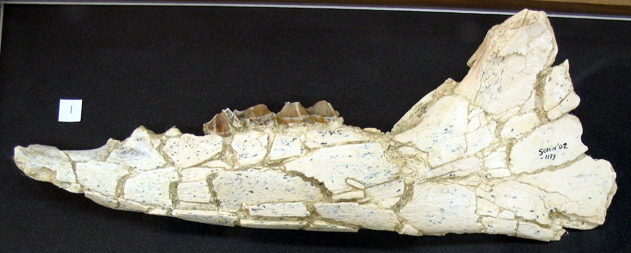 crop of file in file name